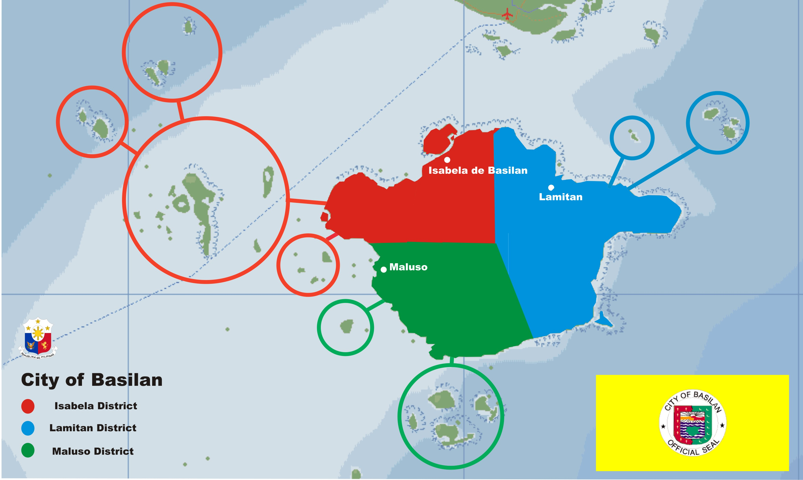 Basilan City political districts (1948-1975)